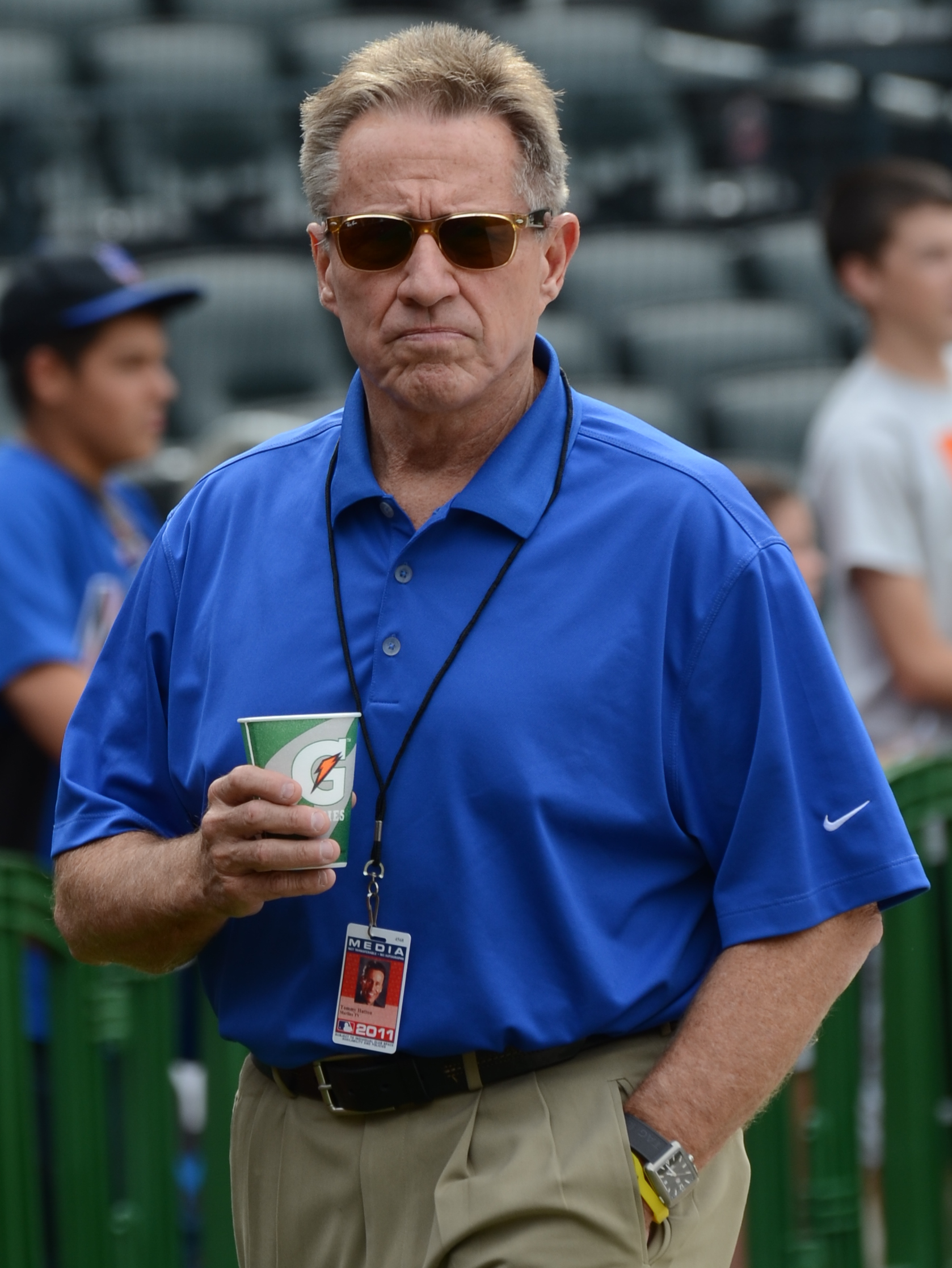 Tommy Hutton on the field at Citi Field before a game between the New York Mets and Miami Marlins